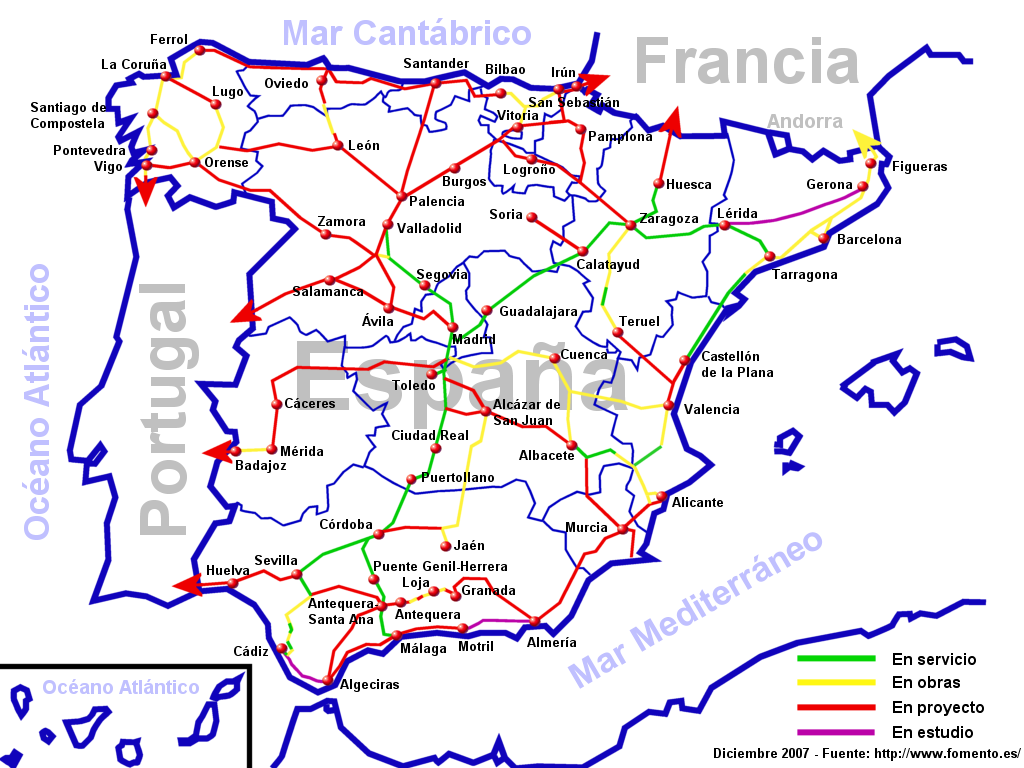 Map of the Spanish high-speed railway network. Some lines are in operation, some under construction and some are planned (December 2007).